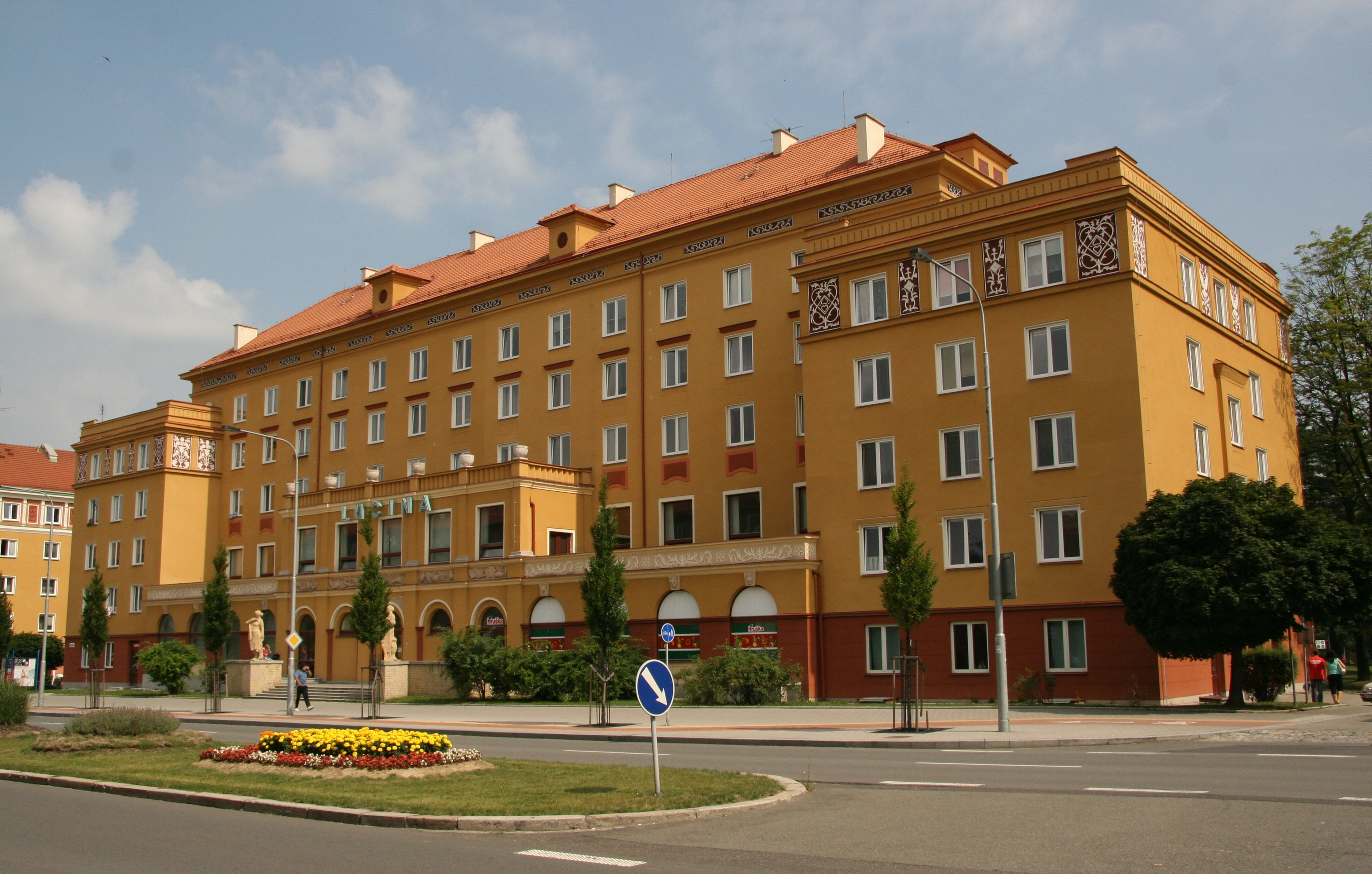 Lučina. Havířov, Karviná District, Moravian-Silesian Region, Czech Republic